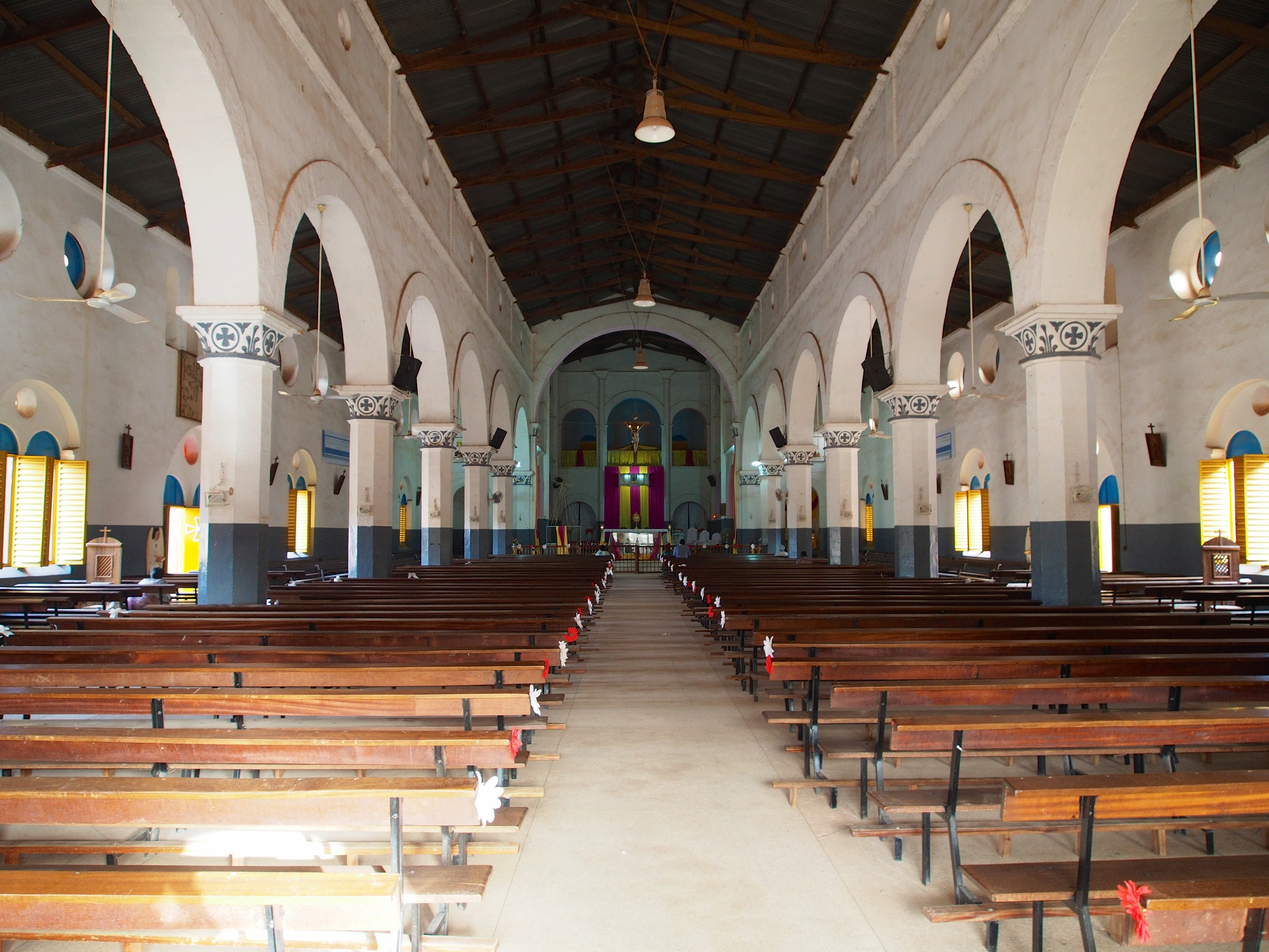 Interior view of the cathedral of Our Lady of Immaculate Conception, Ouagadougou, Burkina Faso